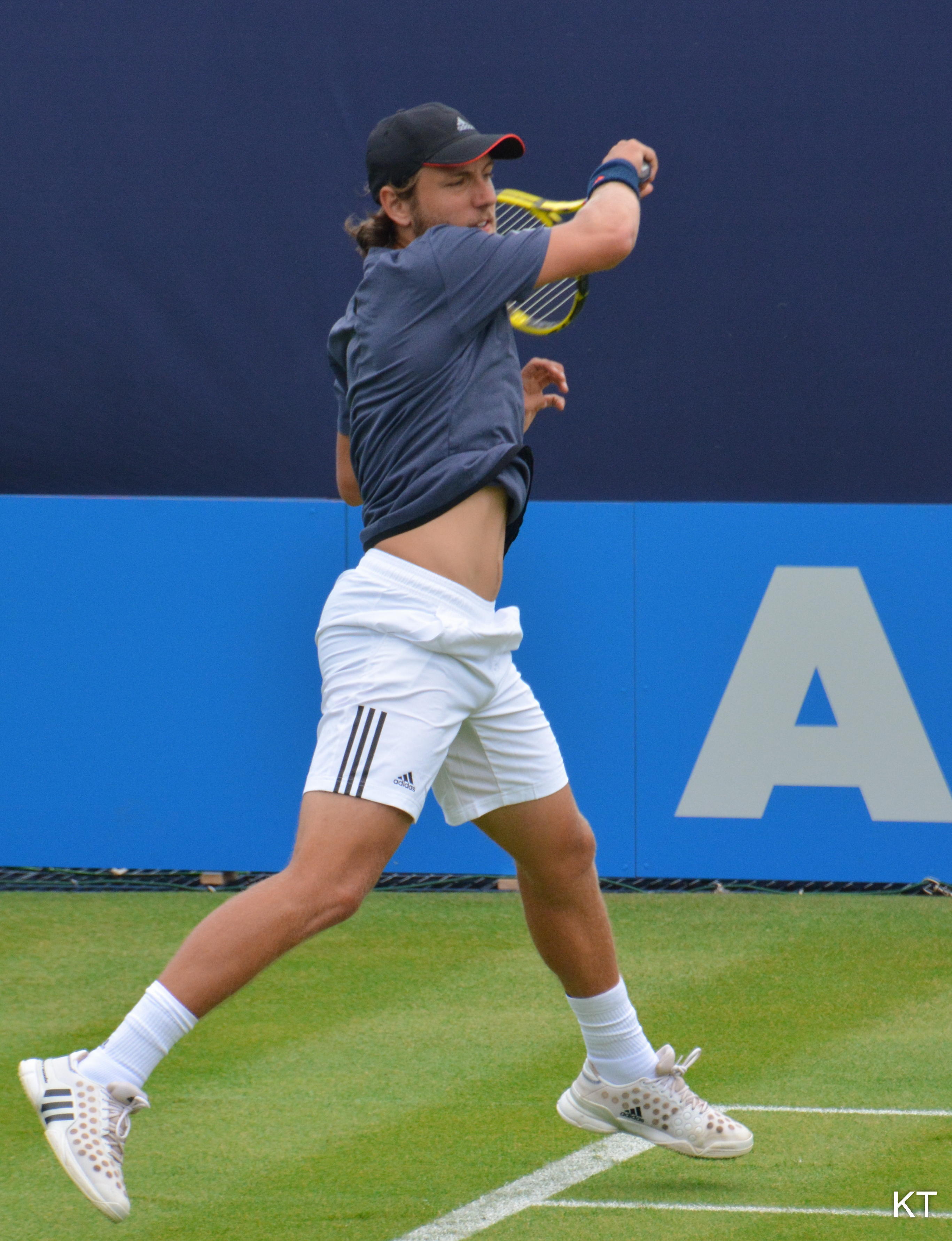 Aegon Championships, Queen's club, June 2015.